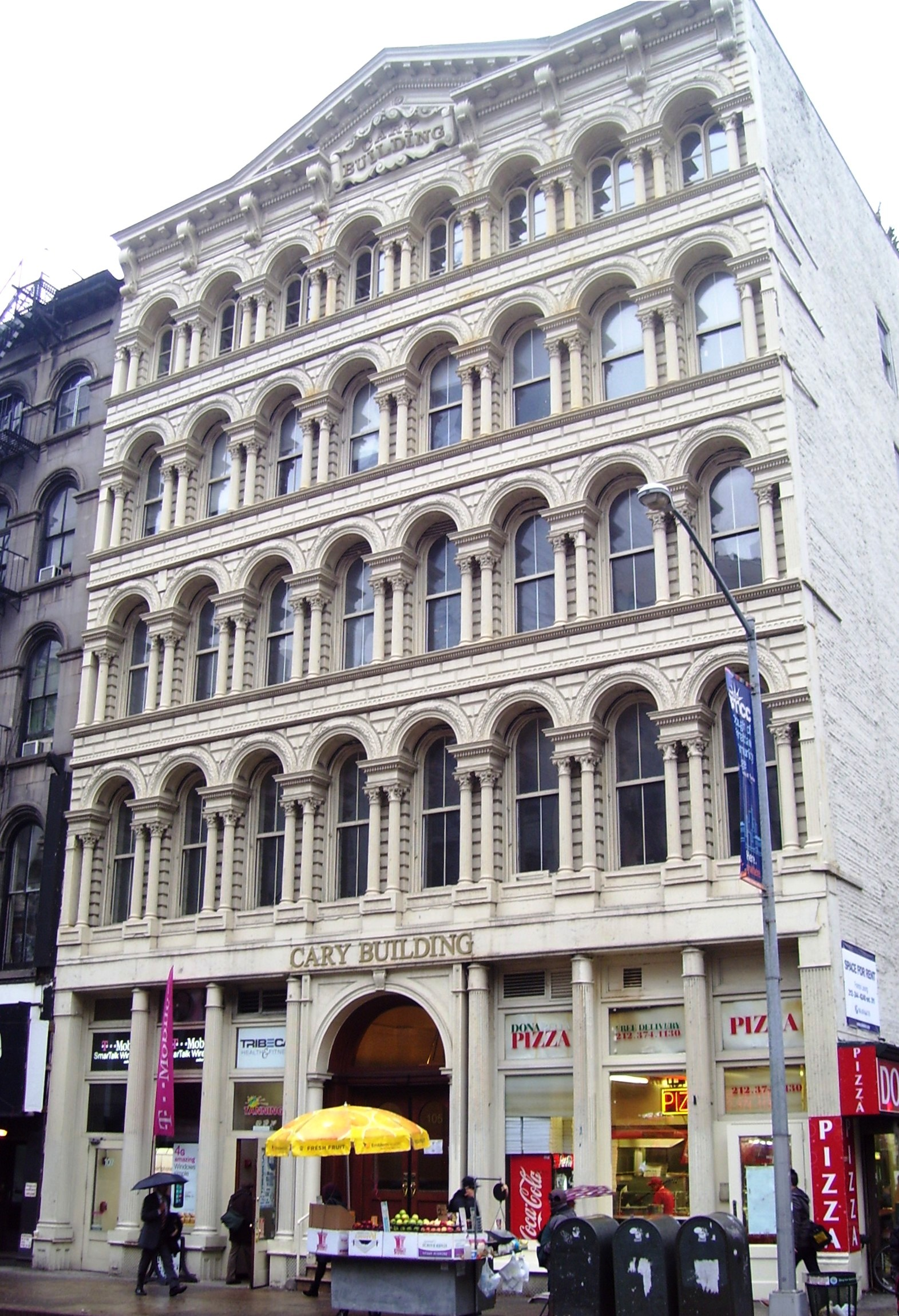 The Cary Building at 105-107 Chambers Street, extending along Church Street to Reade Street in the Tribeca neighborhood of Manhattan, New York City, was built in 1856-1857 and was designed by King & Kellum in the Italian Renaissance revival style, with the cast-iron facade provided by Daniel D. Badger's Architectural Iron Work. It was built for Cary, Howard & Sanger, which was a dry goods merchant. It was designated a NYC landmark in 1982 and is a National Historic Landmark. (Source: Guide to NYC Landmarks (4th ed.))